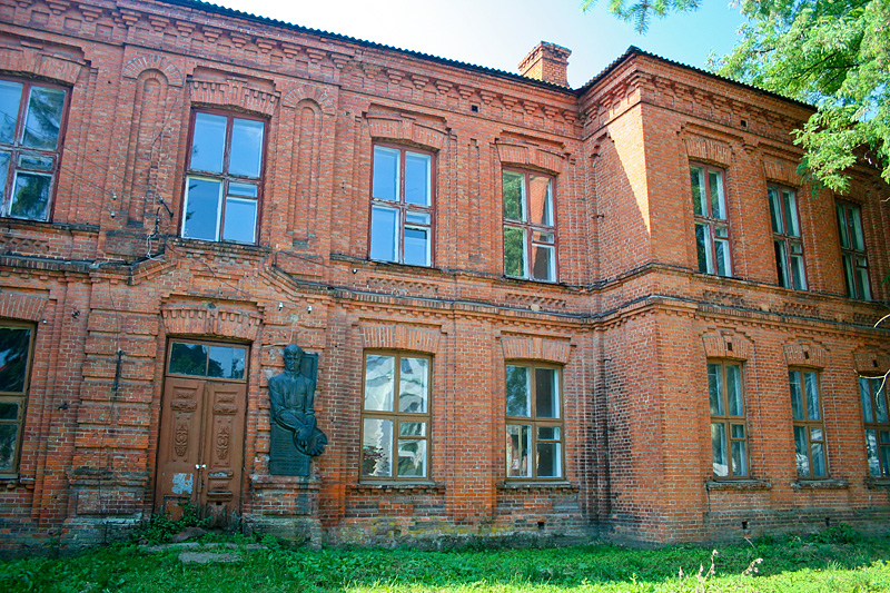 Old brick house